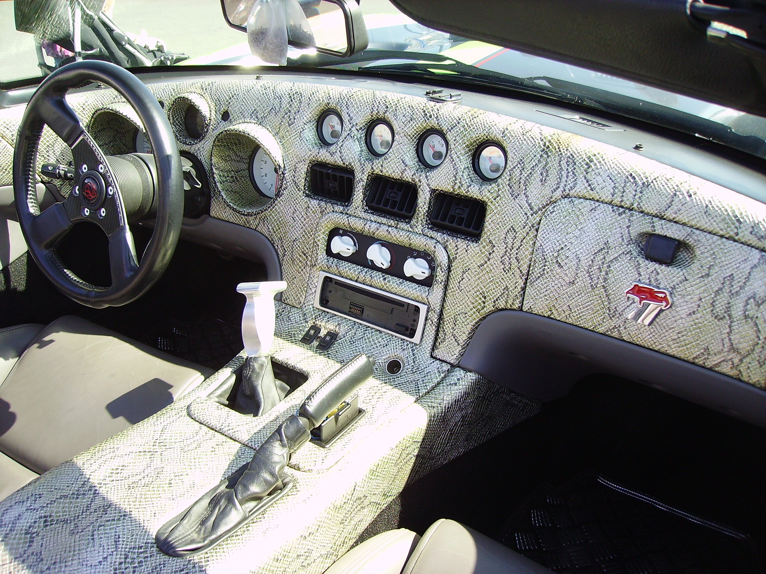 Viper RT/10 interior.